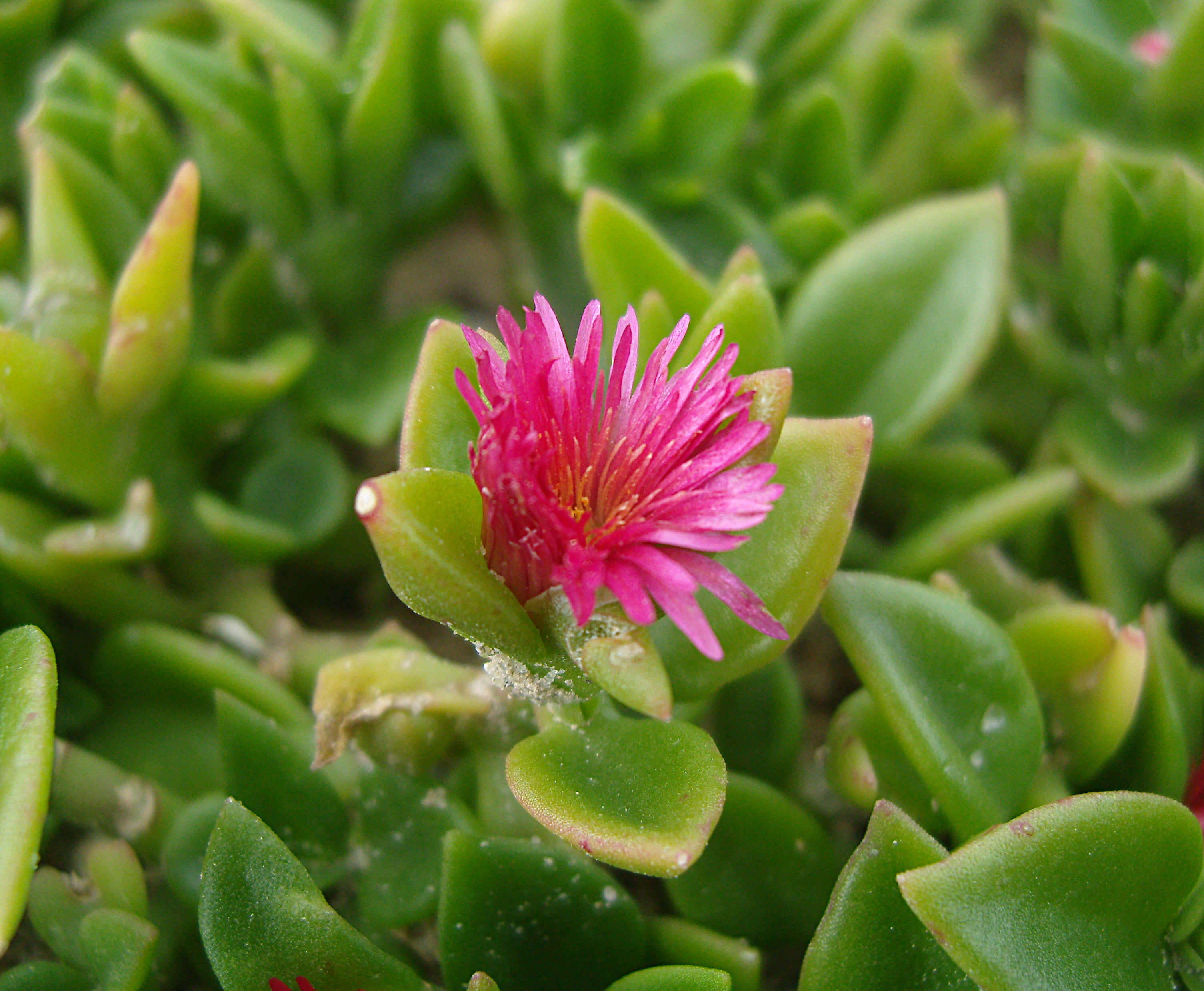 Aptenia cordifolia flower from (Nabeul - Tunisia)